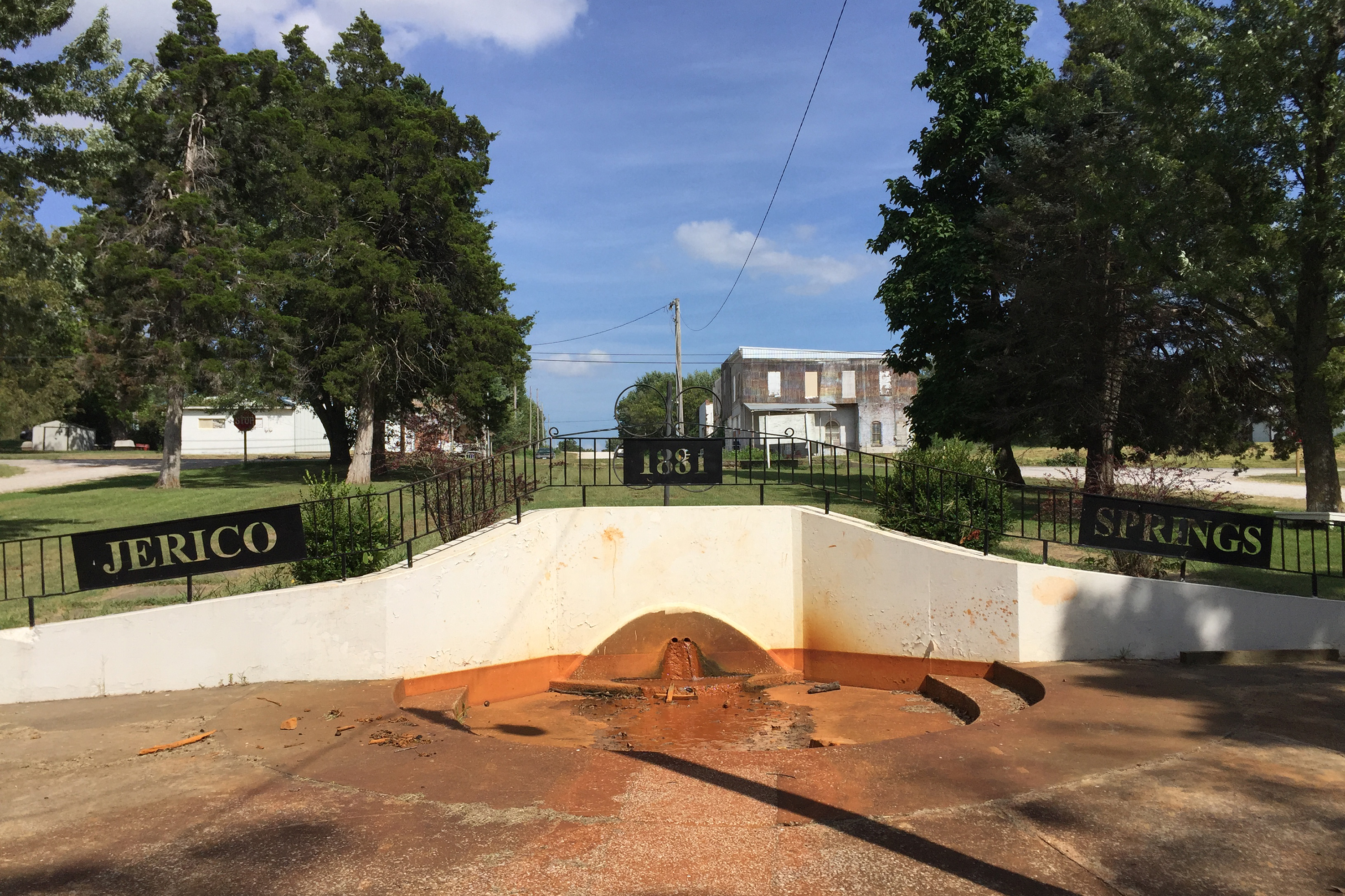 A view of the spring in Jerico Springs, MO